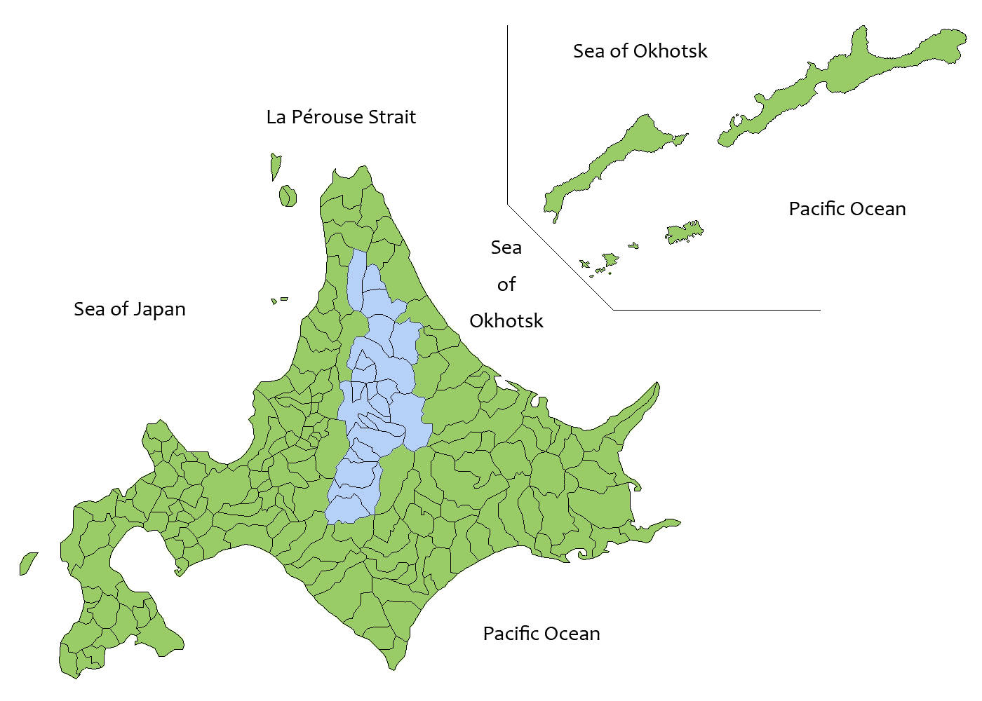 Map of Kamikawa subprefecture in English